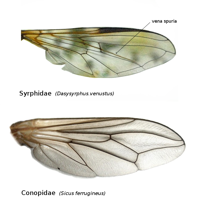 Comparison between the wings of Conopidae and those of Syrphidae. Conopids may be distinguished from syrphids by the lack a spurious vein (vena spuria in latin) except in Physoconops